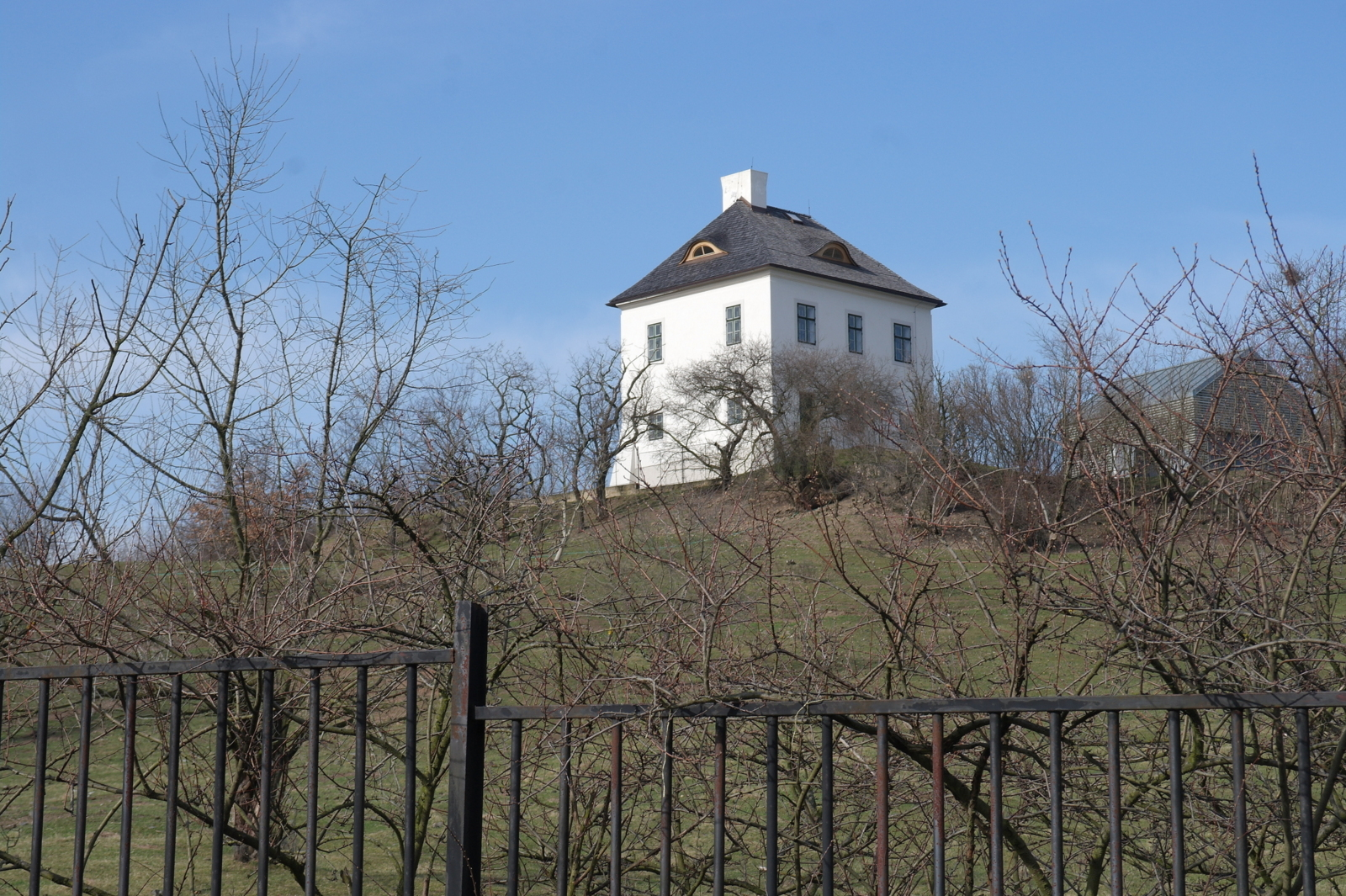 Sklenářka, Pod Hrachovkou 60/6, Troja. The building of the first half of the 17th century.